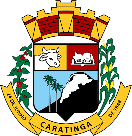 Coat of arms of the city of Caratinga, Minas Gerais, Brazil, instituted by the Law No. 975/1977